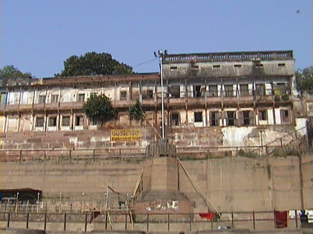 See Varanasi Development Cooperation Handbook/Stories/Responsible Development - Varanasi The Varanasi Heritage Dossier Kautilya Society Play media Vrinda Dar - How we got involved in heritage protection of Varanasi